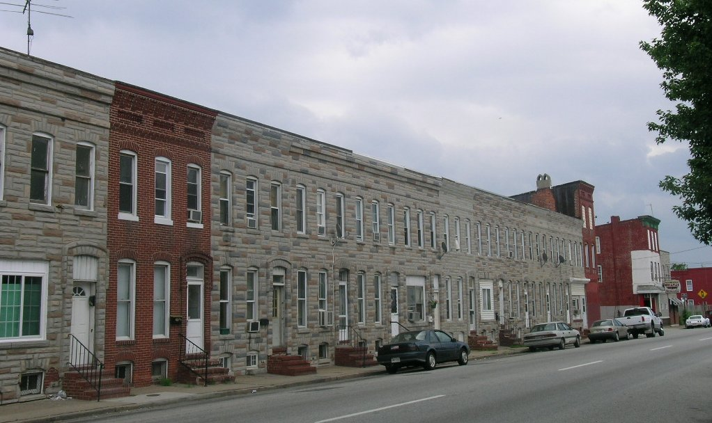 An image of rowhomes on Pennington Avenue in Curtis Bay.